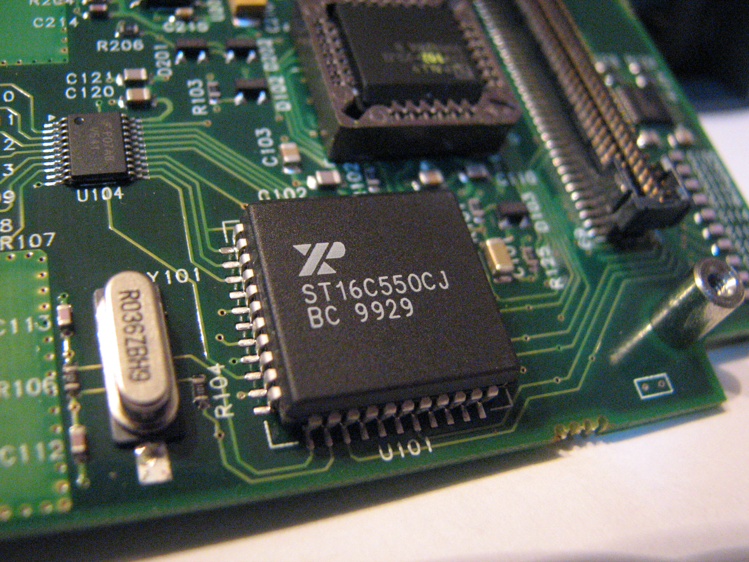 An Exar ST16C550CJ chip, in 44-pin PLCC package, soldered onto a carrier board which originally held a RIM radio modem inside an Itronix portable computer.